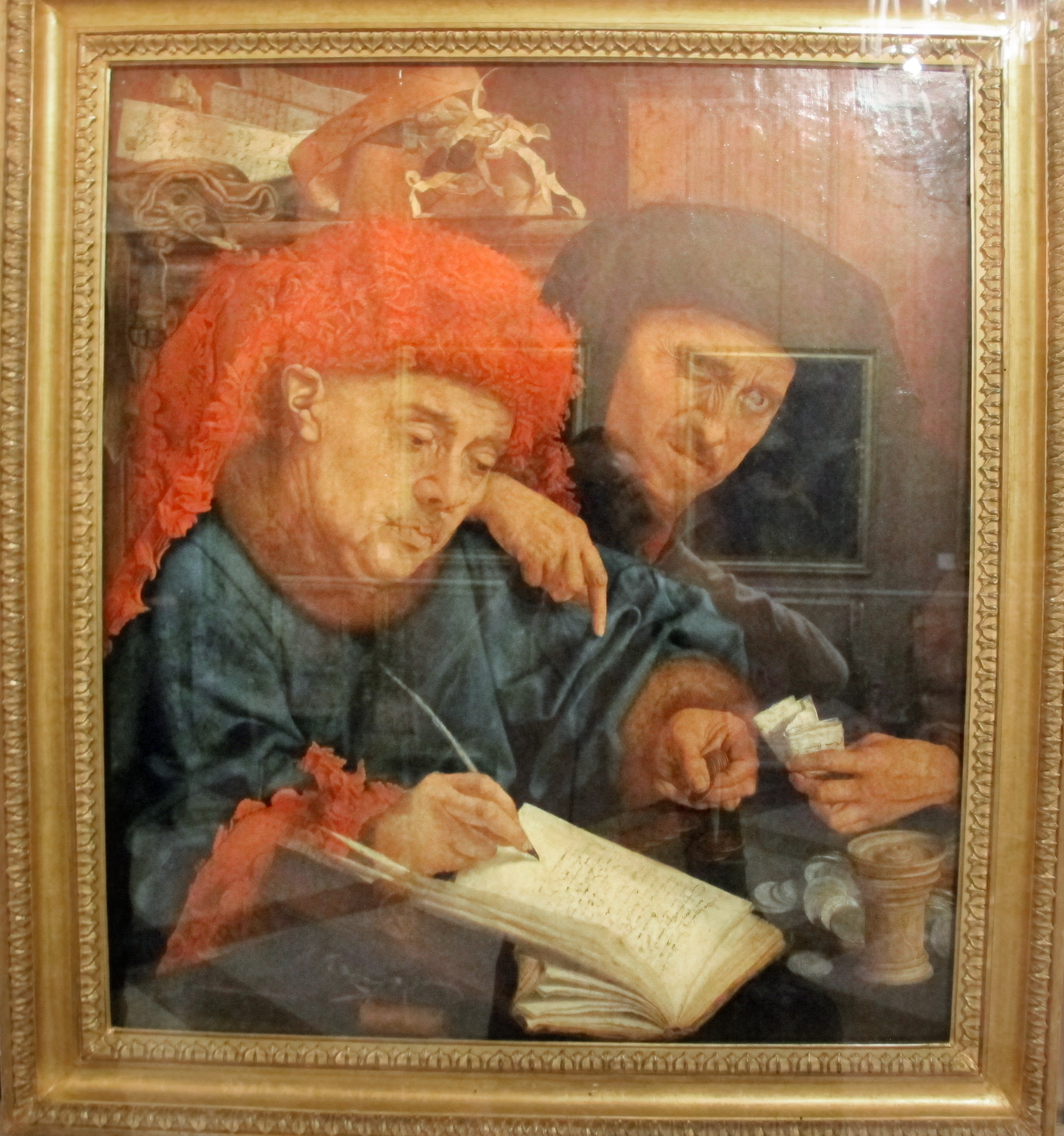 Paintings in the Royal Palace of Naples